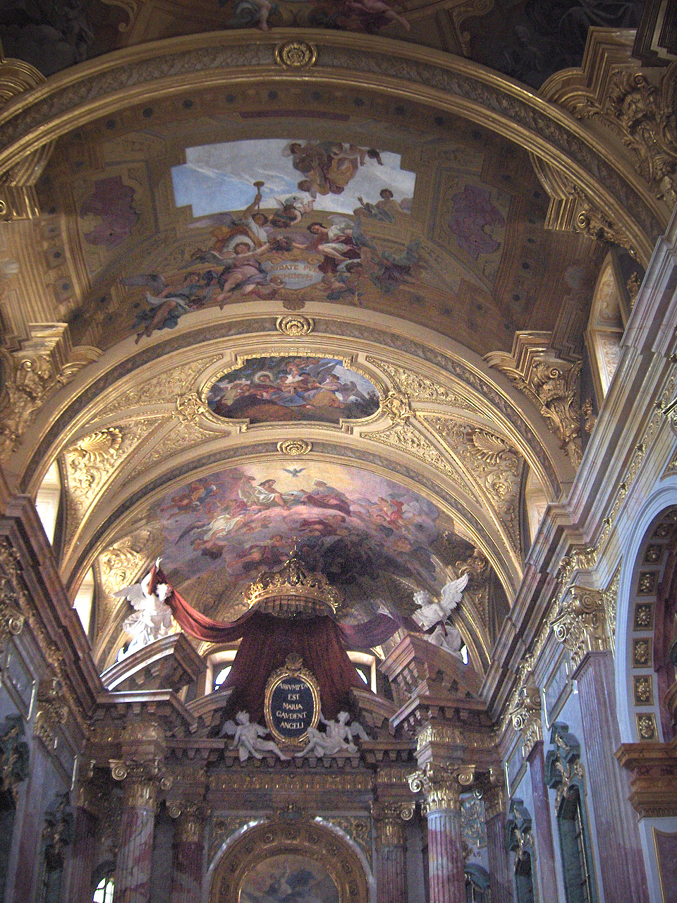 General view on the ceiling of the Jesuitenkirche, Vienna